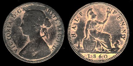 British half penny